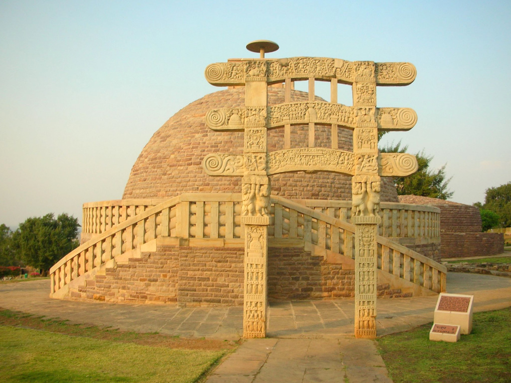 Stupa no. 3, Sanchi